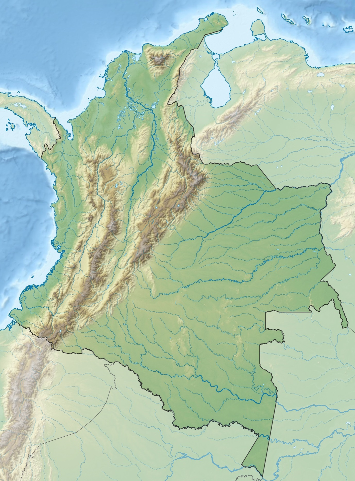 Physical Location map of Colombia Equirectangular projection. Geographic limits of the map: Equirectangular projection. Geographic limits of the map: top = 12.934 bottom = -4.364 left = -79.349 right = -66.591